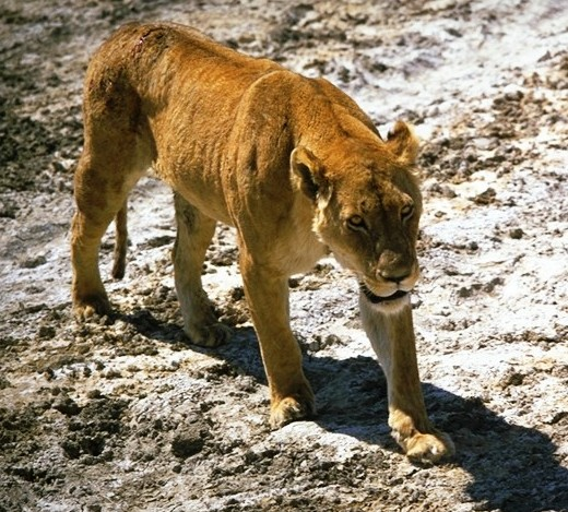 Lioness in Ngorongoro National Park - Tanzania